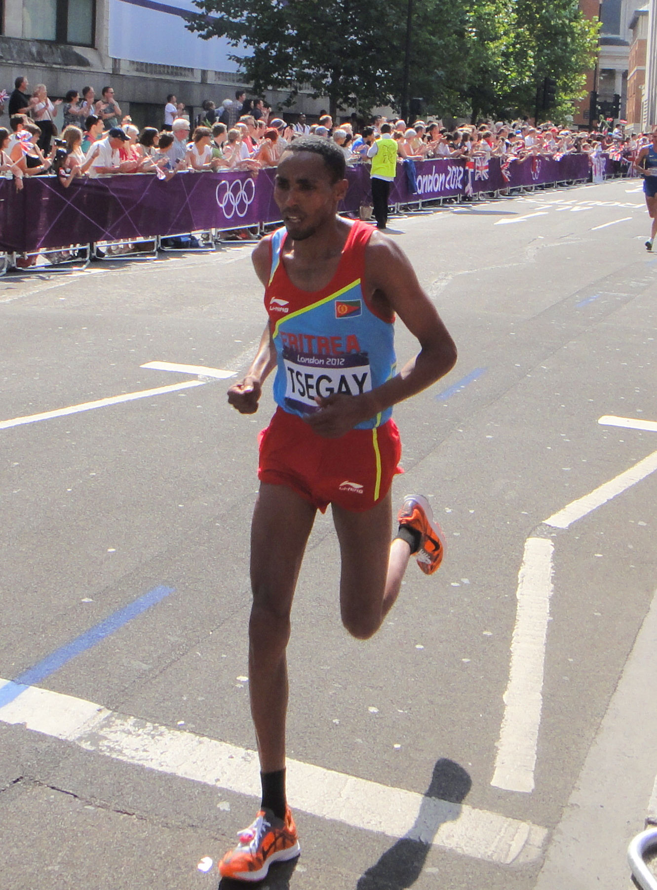 Samuel Tsegay (Eritrea) - London 2012 Men's Marathon